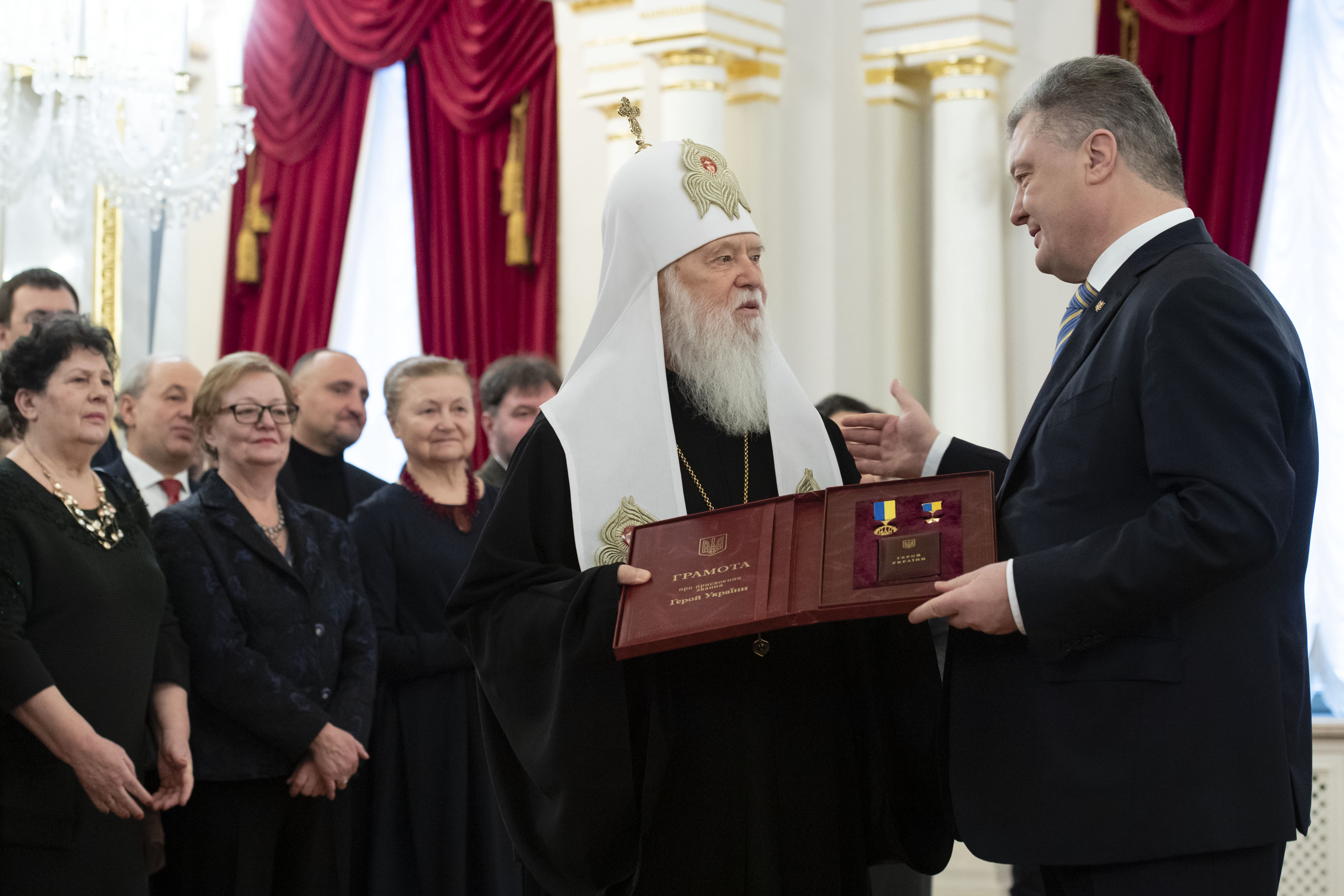 President Poroshenko handing the medal of Hero of Ukraine and the Order of the State to Filaret (Denysenko).[1] See also Poroshenko's tweet.[2]